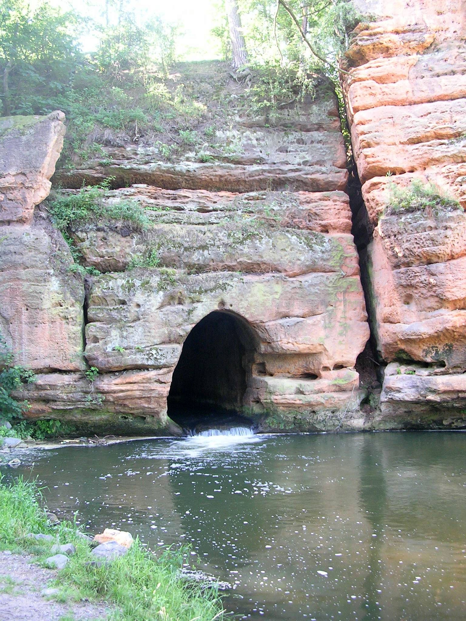 Ploučnice Tunnel